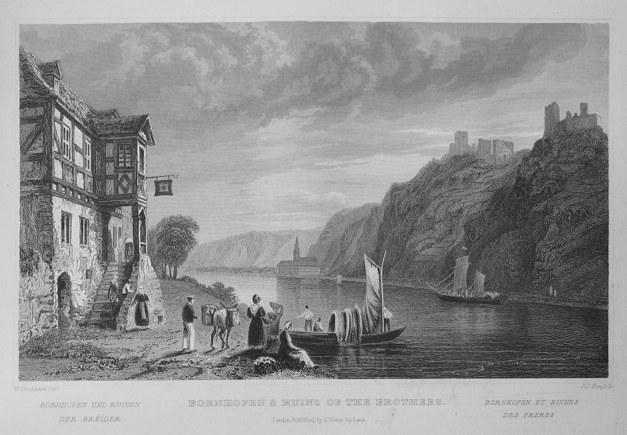 Steel engraving from "Views of the Rhine" by William Tombleson (around 1840): Bornhofen and ruins of the "Brothers".